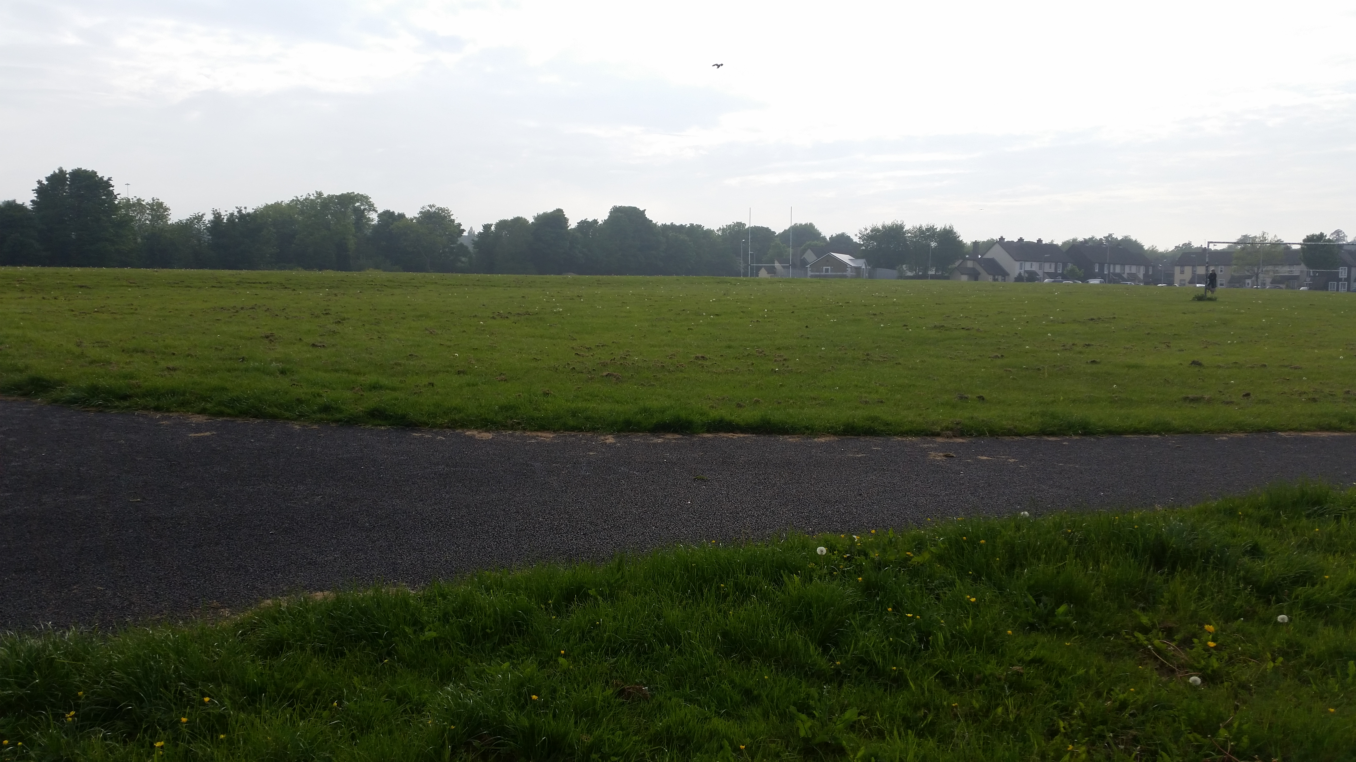 View of Loughlinstown Commons with forest in background